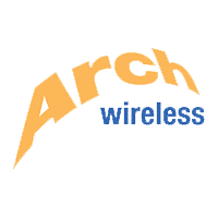 Logo of Arch Wireless; now known as USA Mobility Wireless